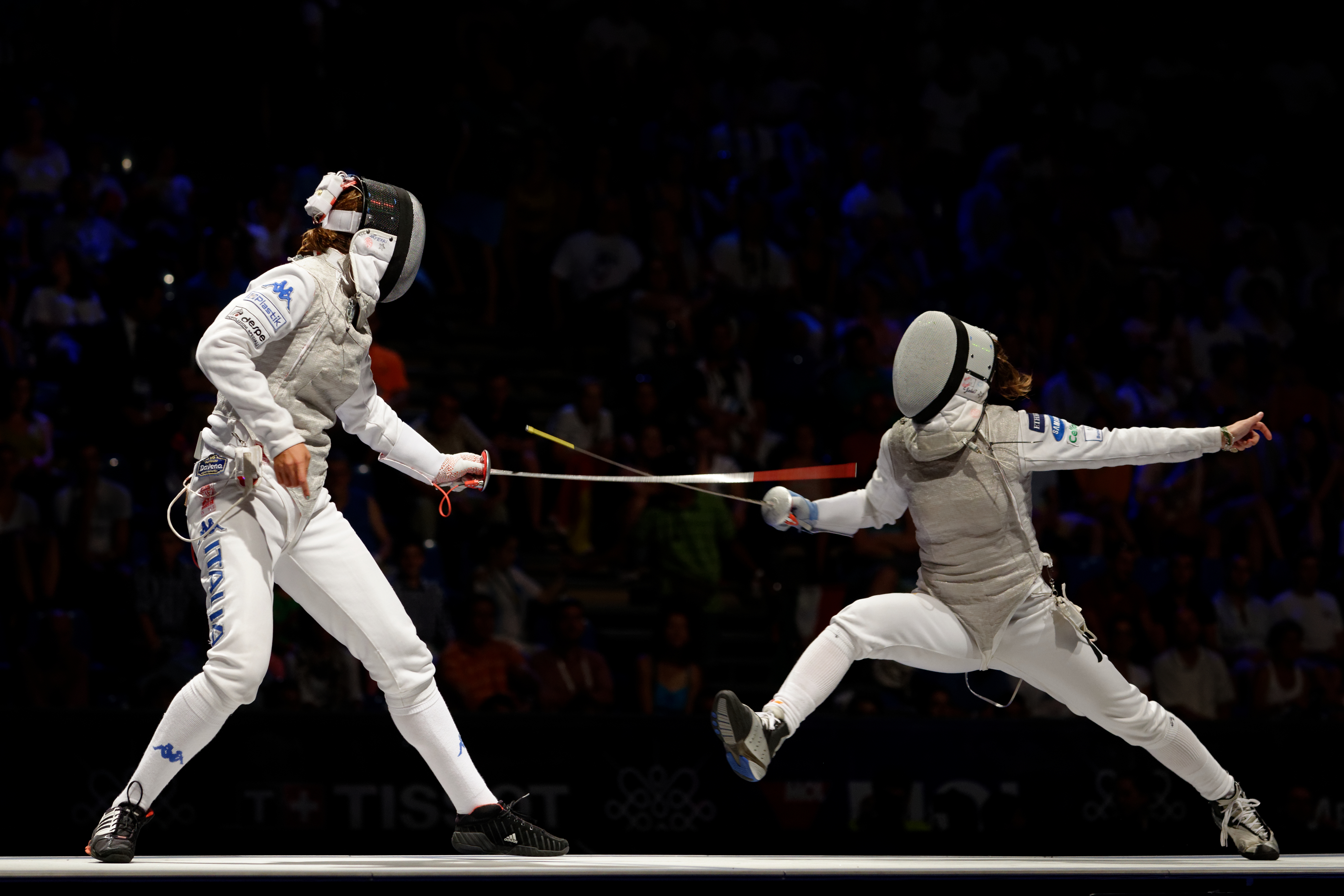 Italy's Arianna Errigo (L) competes against Carolin Golubytskyi of Germany (R) in the final of the women's foil event in the 2013 World Fencing Championships 2013 at Syma Hall in Budapest, 10 August 2013.